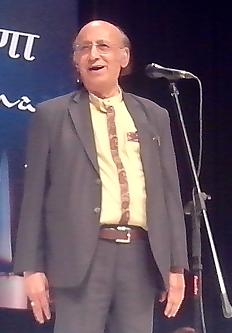 Famous Hindi-Urdu Poet Nida Fazli, Reciting at Jashn-e-Hryana in Chandigarh, 28 January 2014